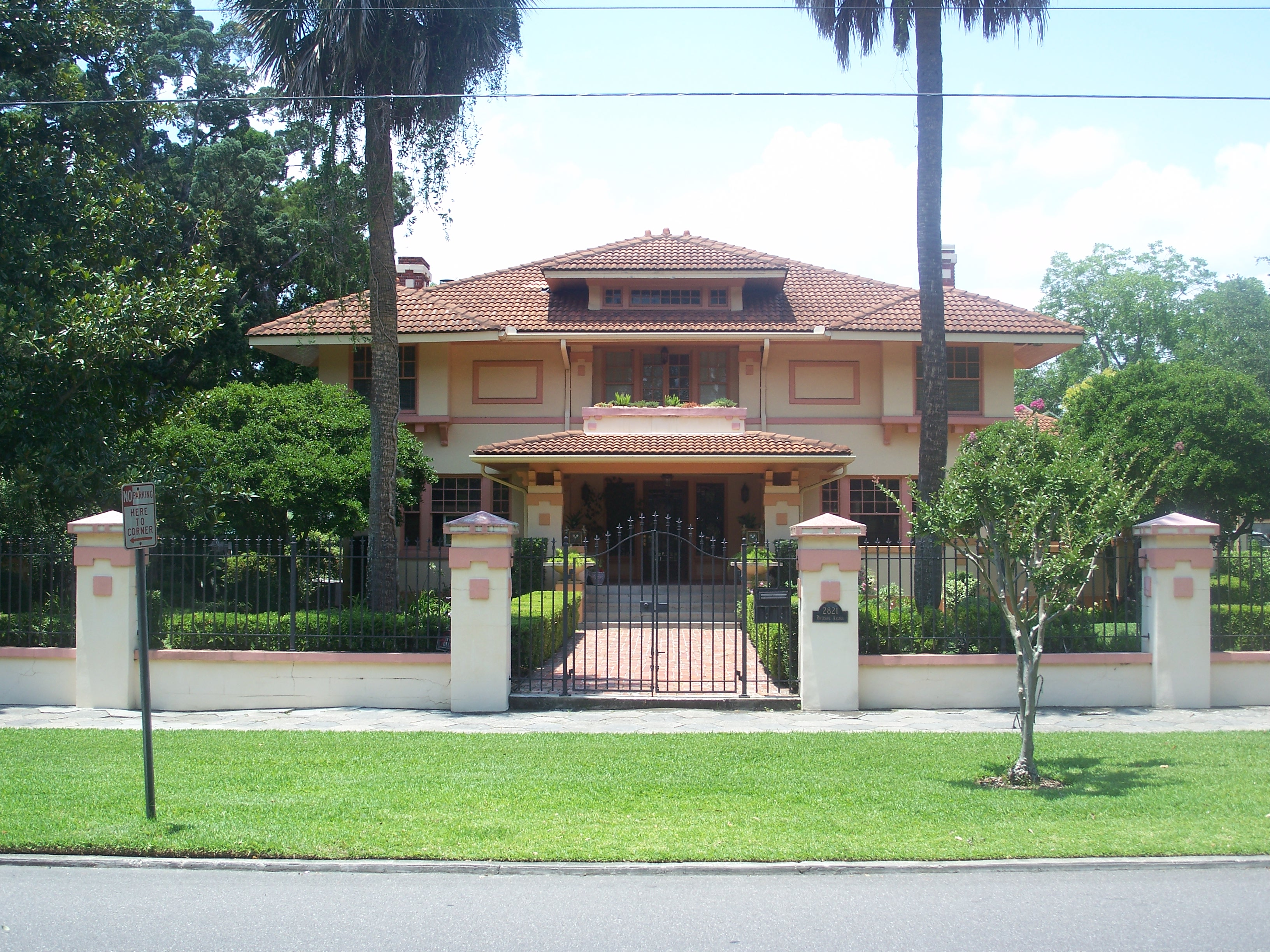 Jacksonville, Florida: Riverside Historic District: L.T. Smith Residence